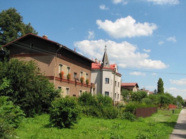 Meziměstí - houses